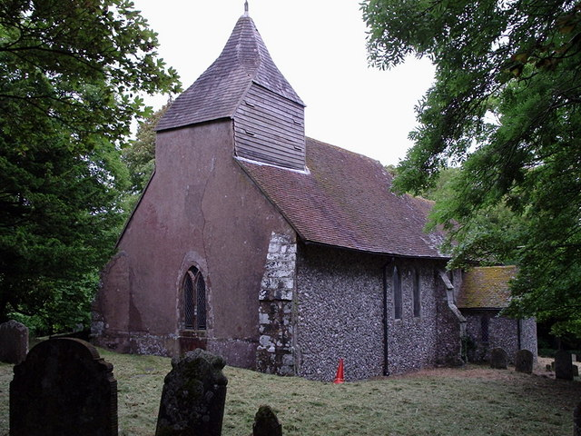 St Peters Church Folkington